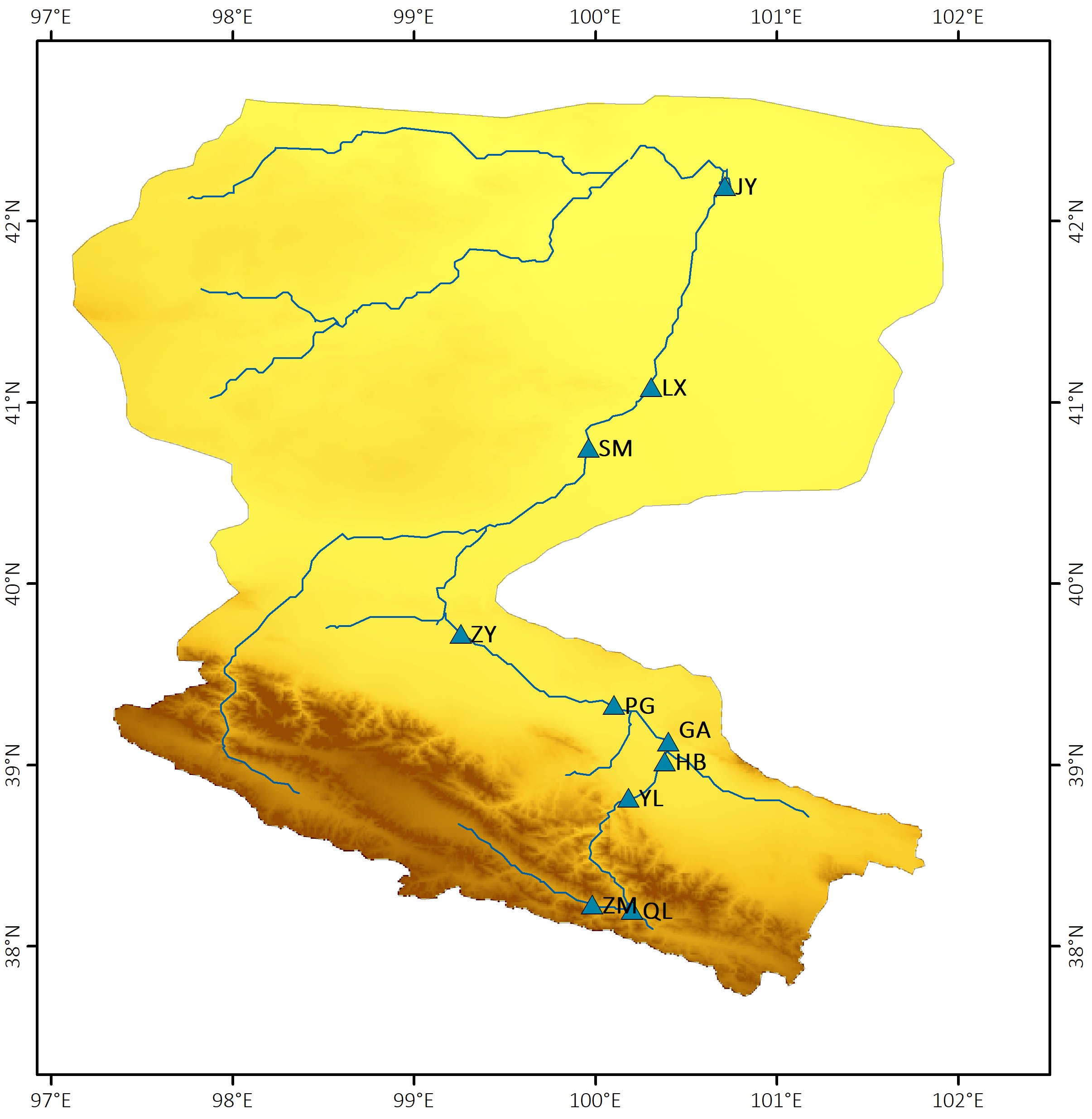 Location of some hydrometric stations along the HeiHe